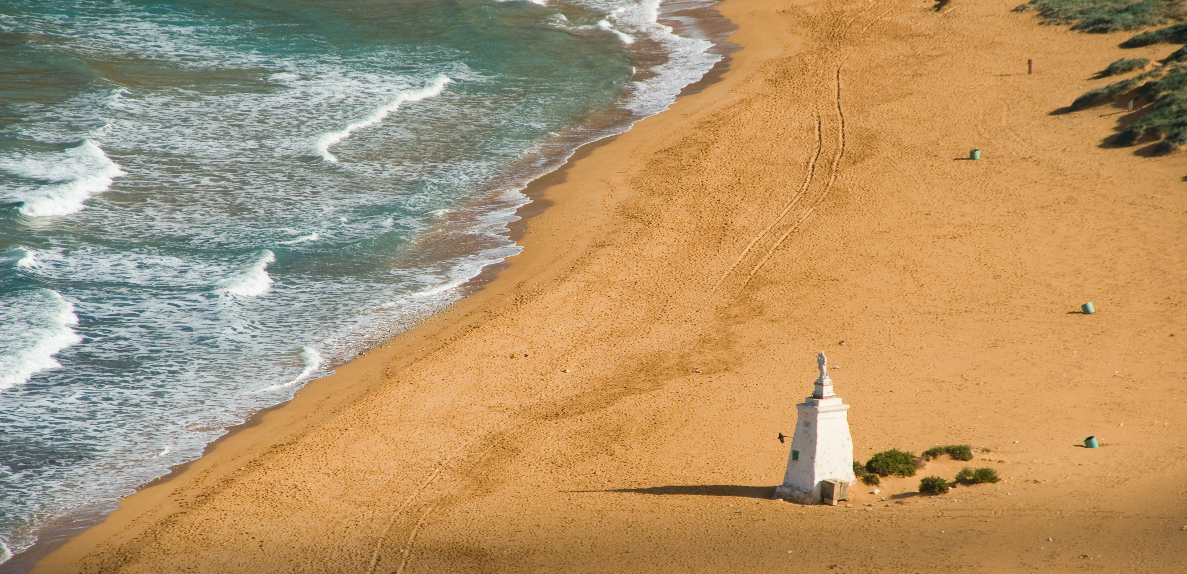 Ramla Bay in Gozo, Malta